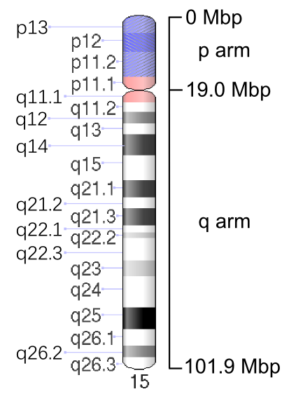 Ideogram of human chromosome 15. G-band, 550 bphs (bands per haploid set). Black and gray: Giemsa positive. Red: Centromere. Light blue: Variable region. Dark blue: Stalk. Mbp: Mega base pairs.